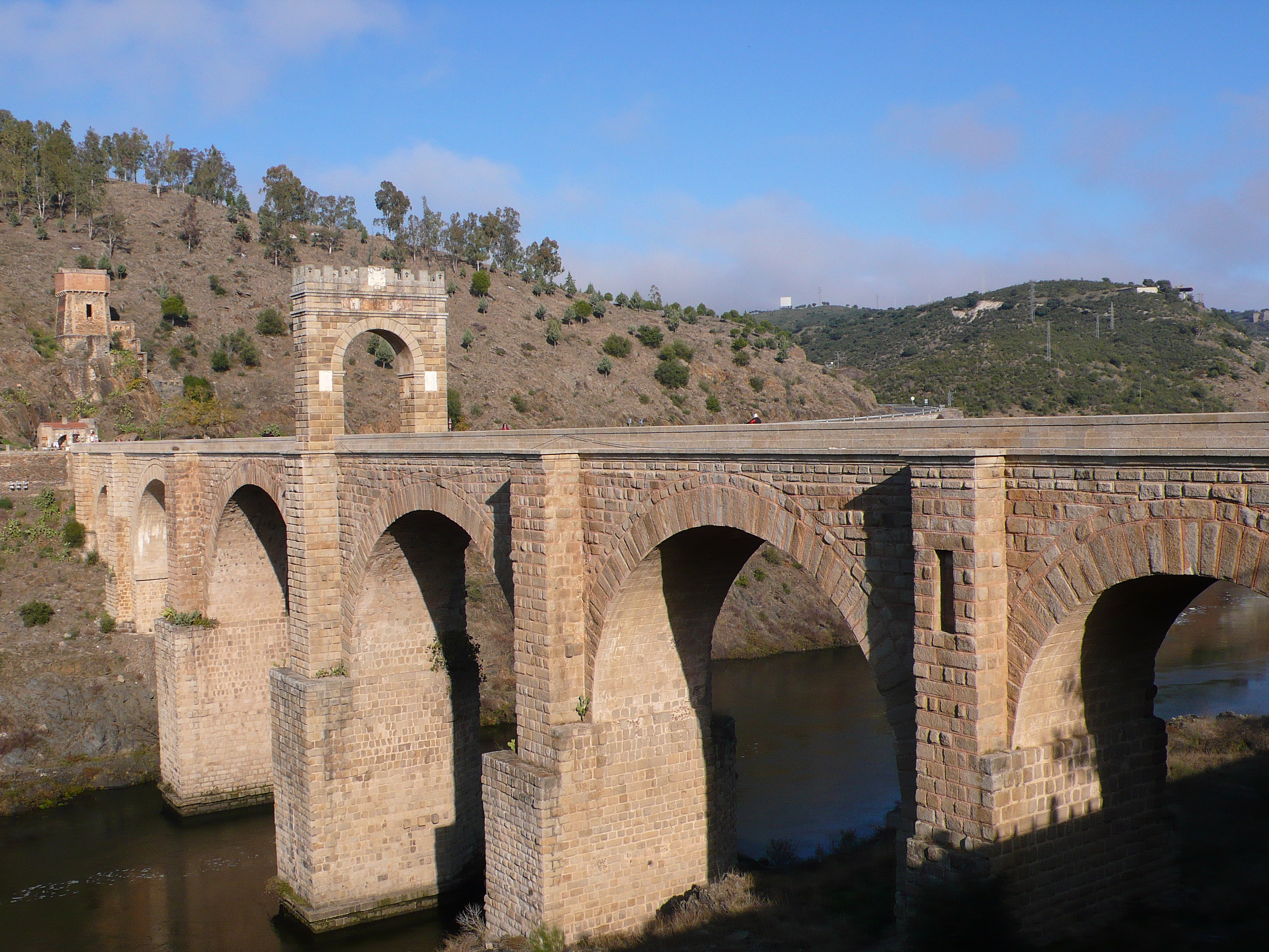 Roman Alcántara Bridge across the River Tajo, Cáceres province, Extremadura, Spain